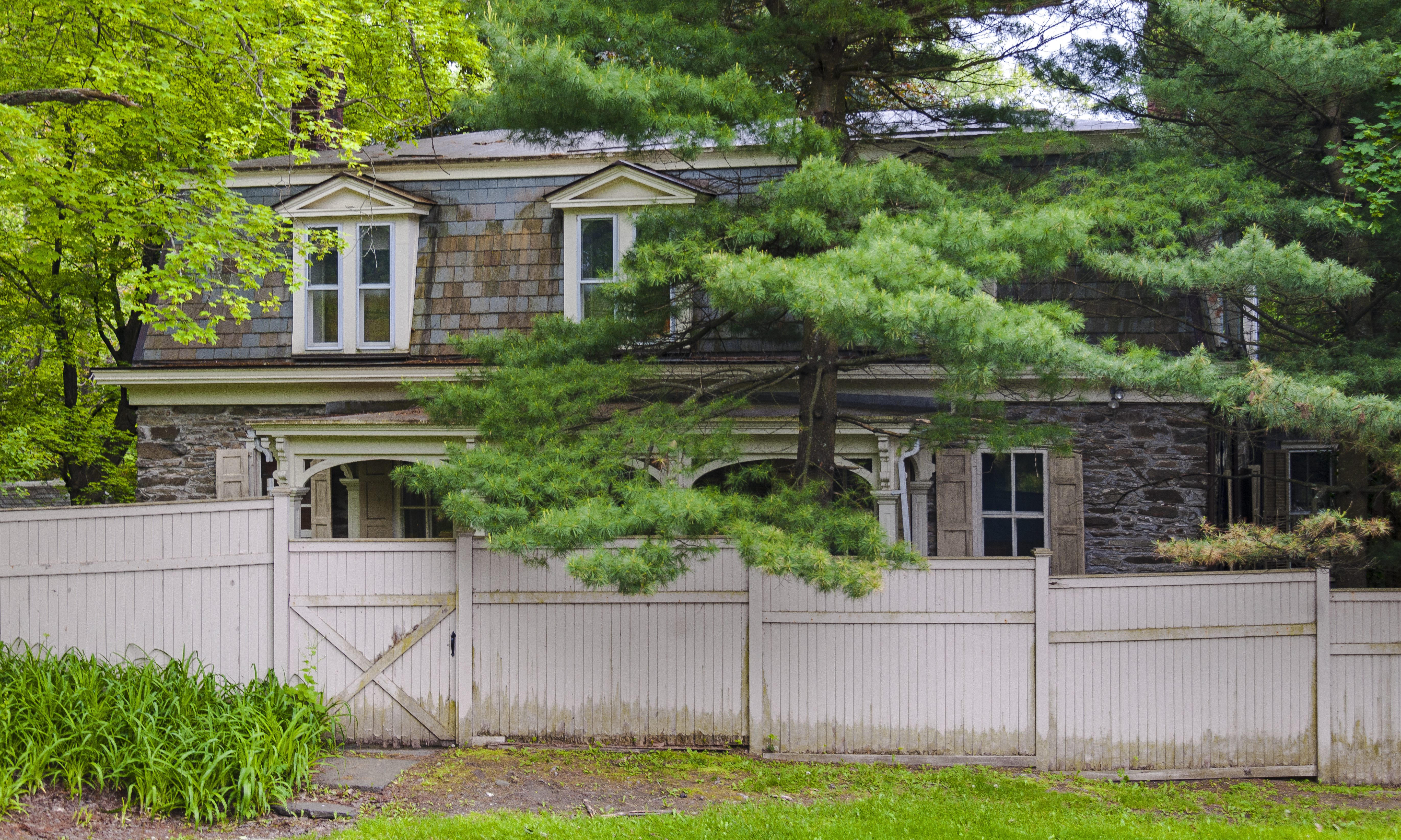 The Jan Pier House along NY 308 in Rhinebeck, NY, USA